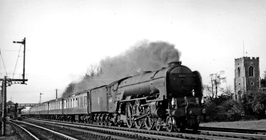 Up ECML express passing Offord & Buckden station and St Peter's Church, Offord Cluny. Up ECML express passing Offord & Buckden station and St Peter's Church, Offord Cluny View northward to Offord & Buckden station (closed 2/2/59), Peterborough and the North; ex-Great Northern East Coast Main Line. This is the 'Queen of Scots Pullman', 11.00 Glasgow (Queen St.) via Edinburgh, Newcastle and Leeds to King's Cross, headed by A1 Pacific No. 60130 'Kestrel'.